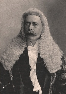 Sir James Molteno - First Speaker of South African Parliament